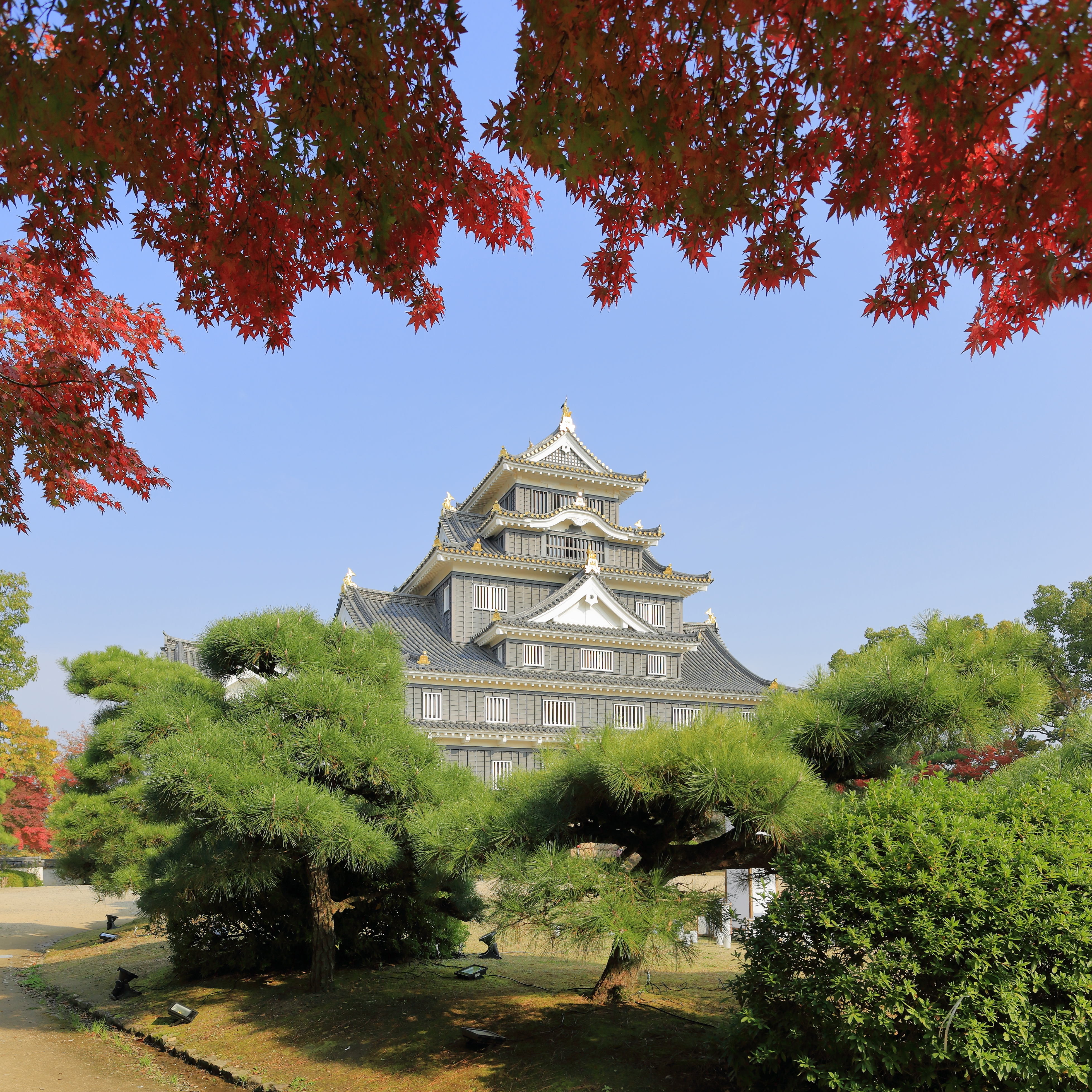 Okayama Castle is a Japanese castle in the city of Okayama.